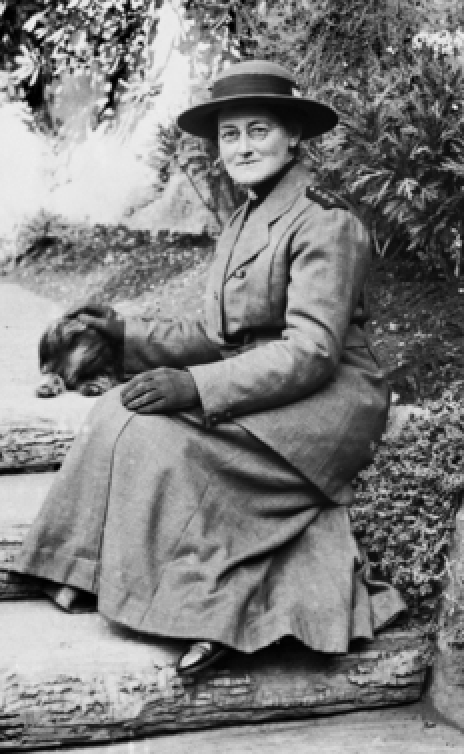 Matron Ethel Gray CBE, RRC (1876-1962) WWI army nurse, only Australian woman to have received the Medaille de la Reconnaissance Française